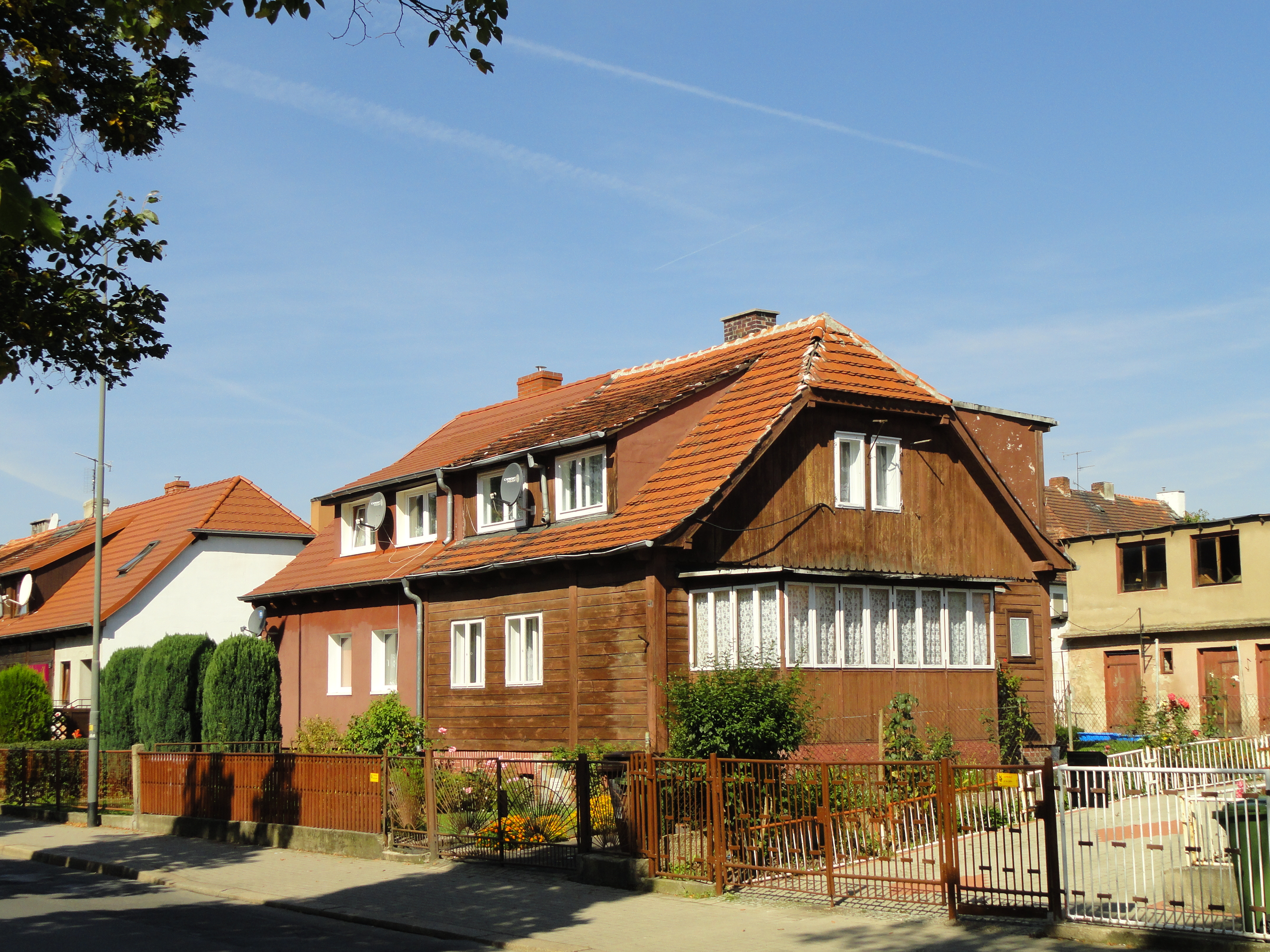 Timber house at the Romualda Traugutta Street in Zgorzelec